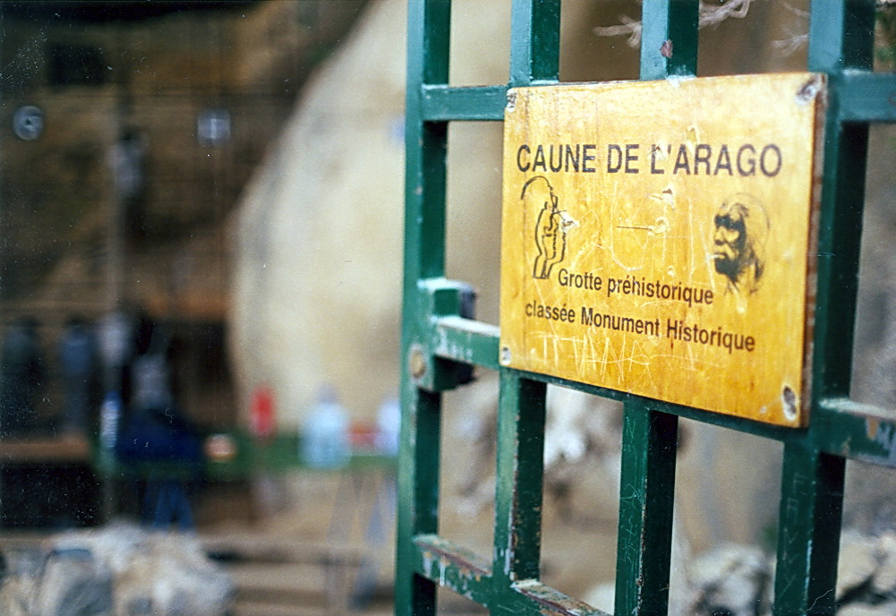 Arago-cave, near Tautavel (Perpignan-region), France: entrance door